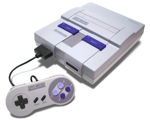 Super Nintendo Entertainment System, North American version.